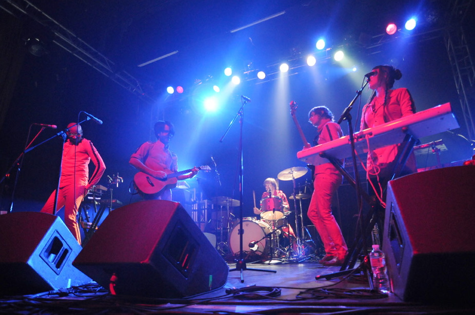 Fol Chen live at Granada Theater in 2010. Photo by Bill Ellison